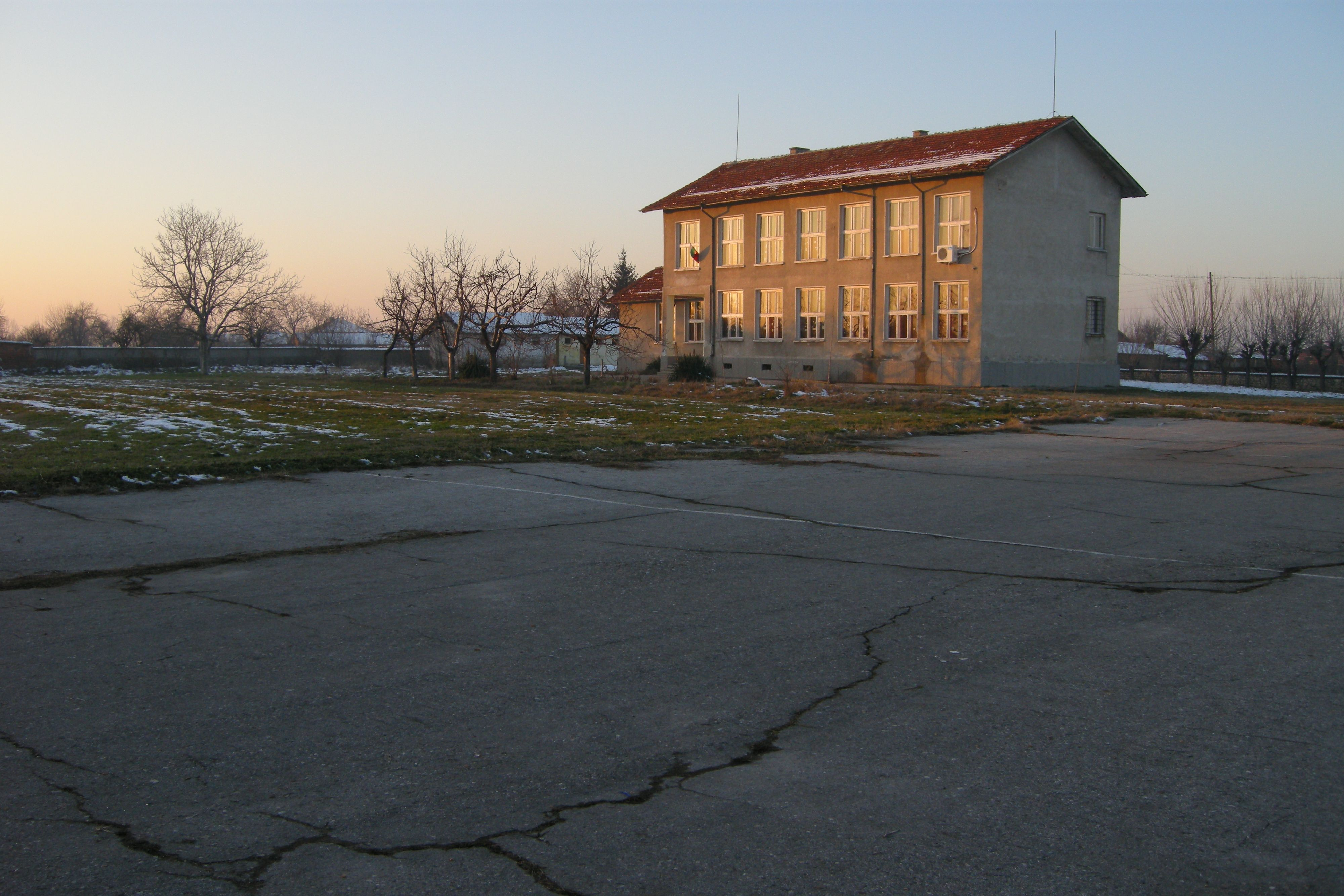 The primary school in the village Qsno Pole, Maritsa muncipality, Plovdiv region, Bulgaria.